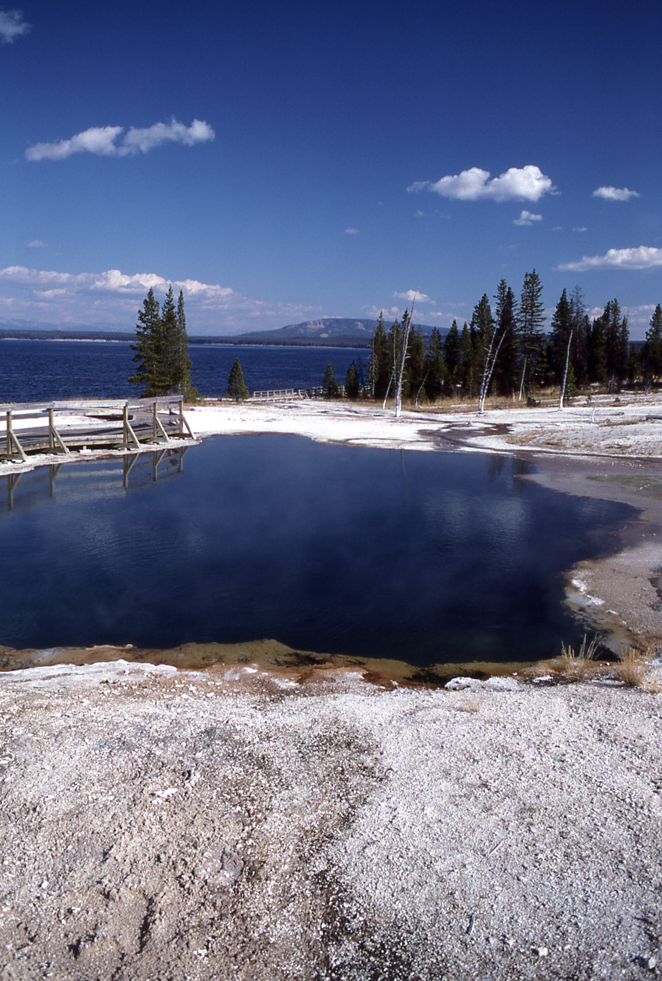 Black Pool; Hot Springs, West Thumb area of Yellowstone National Park